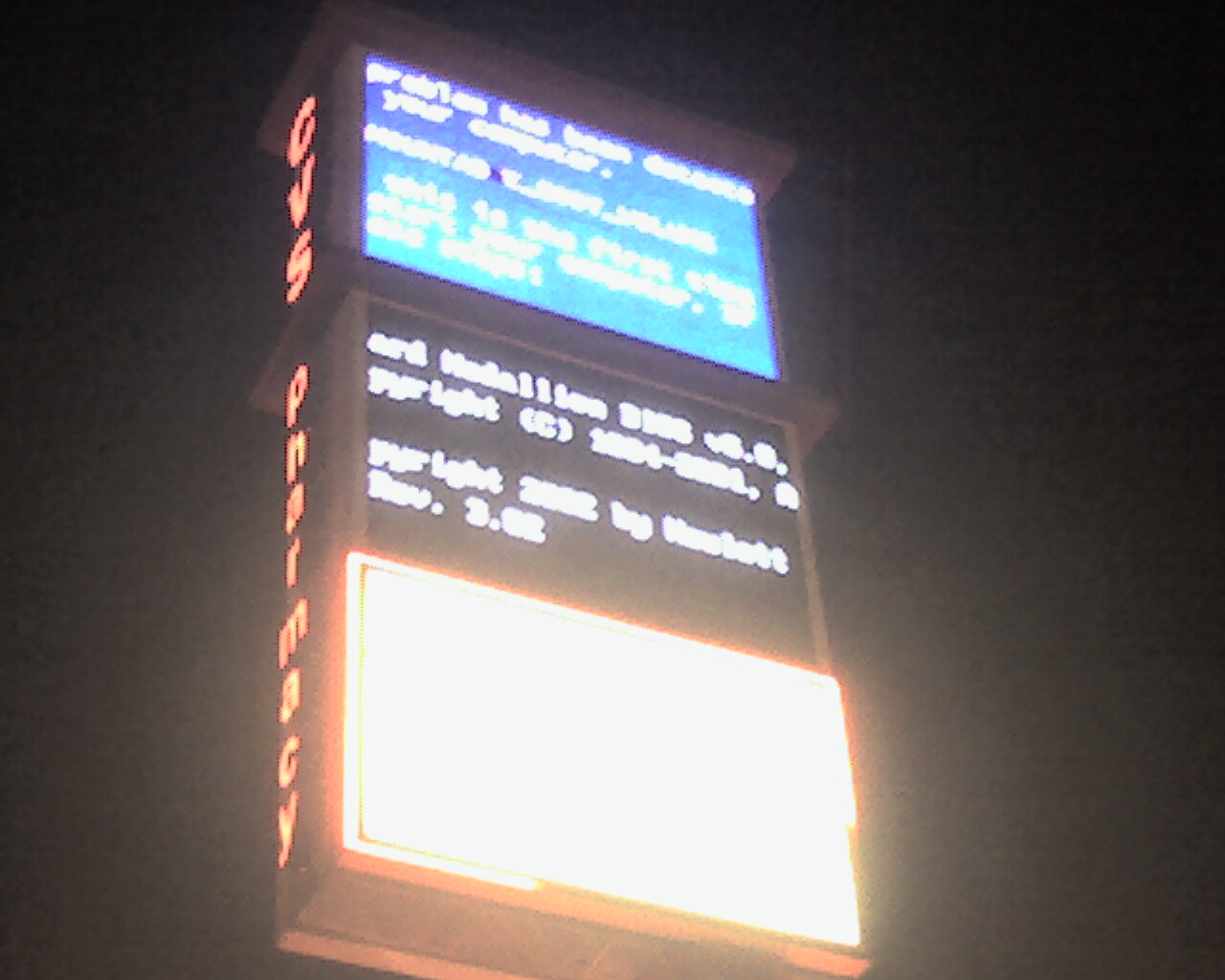 I took this picture. Eric Rzeszut, 12/10/06, and release it to the public domain with no rights reserved.